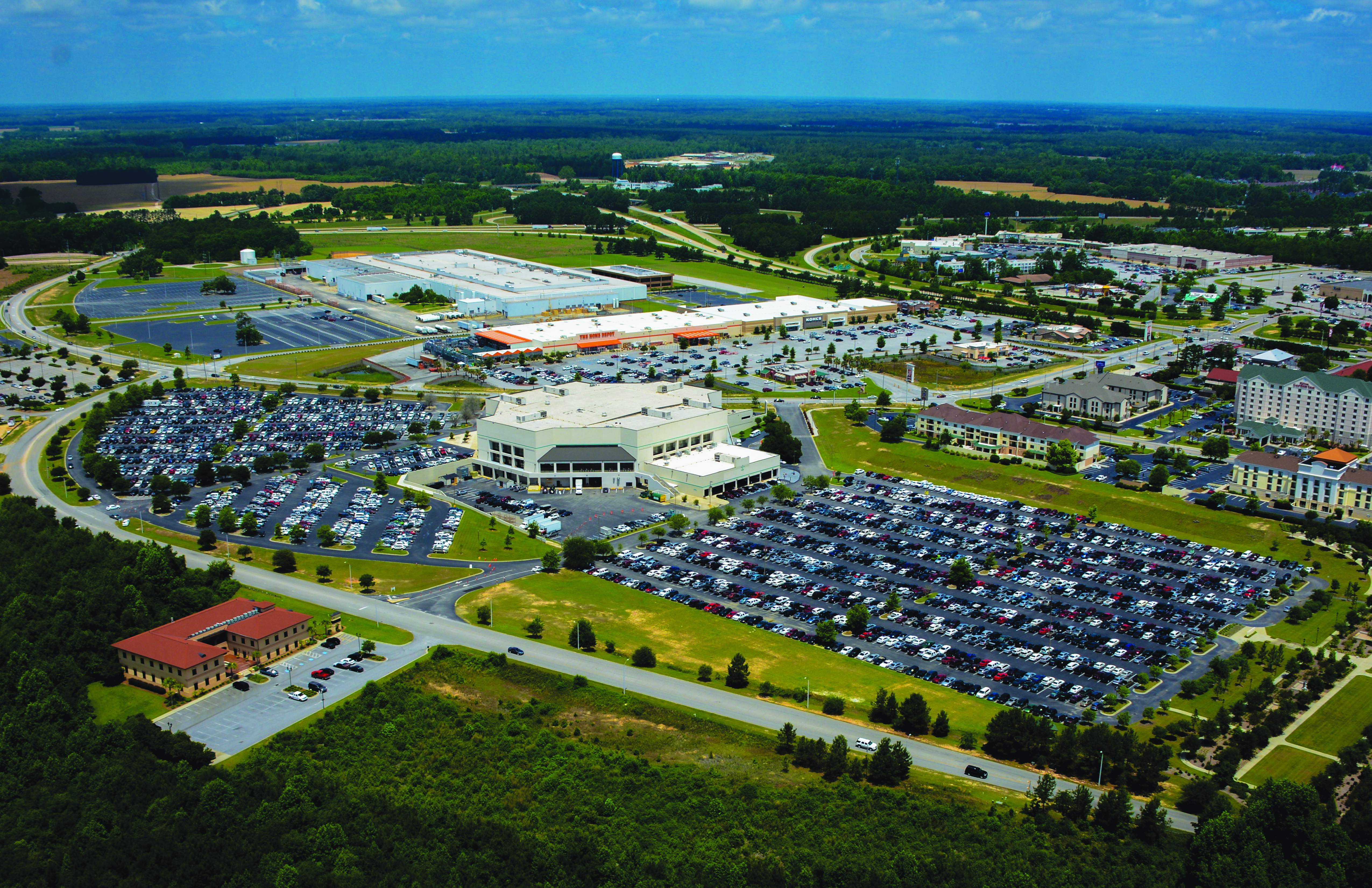 An Aerial View of Western Florence, South Carolina, USA near the junction of Interstates I-20 and I-95.